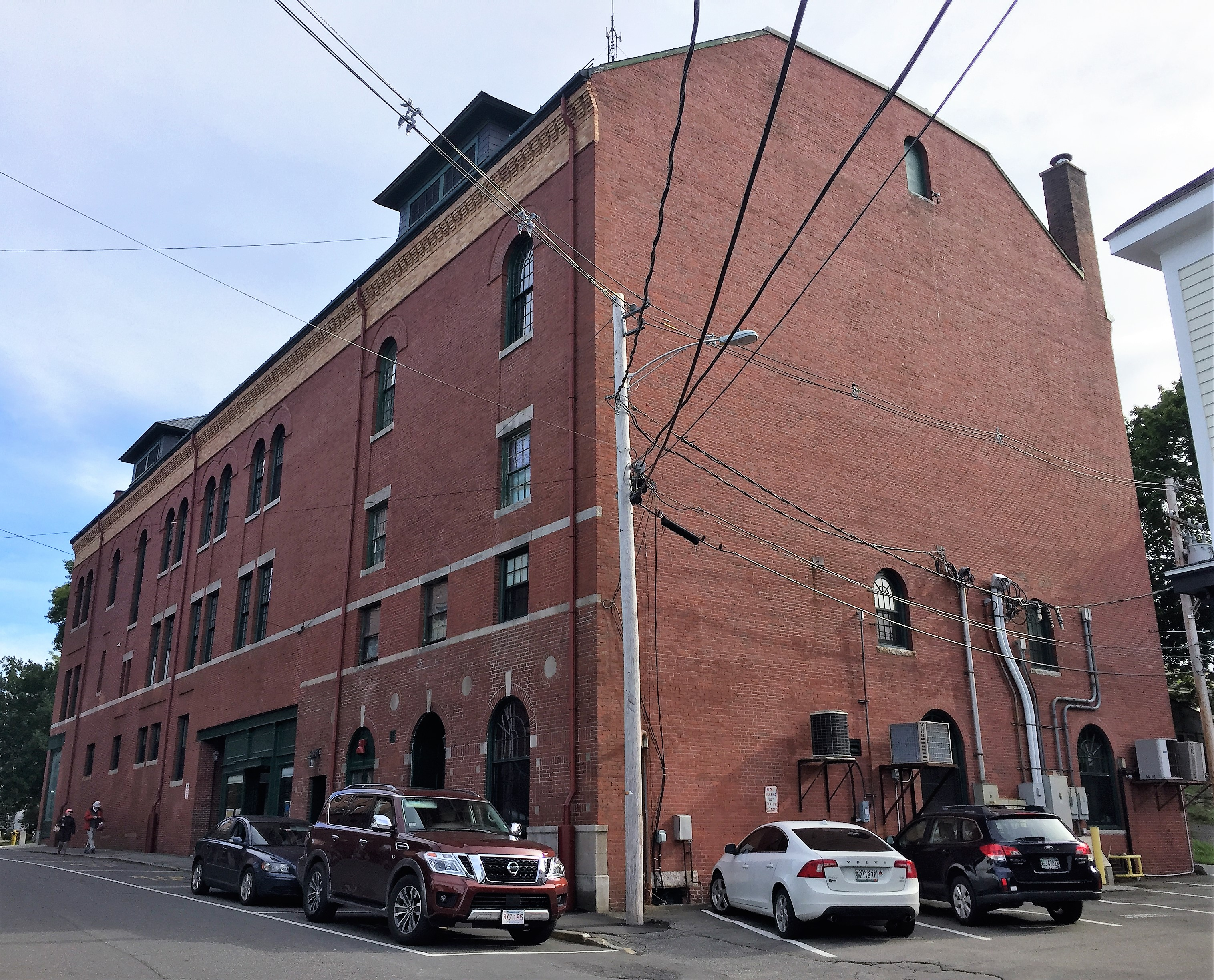 Rear of building on Washington Street side.